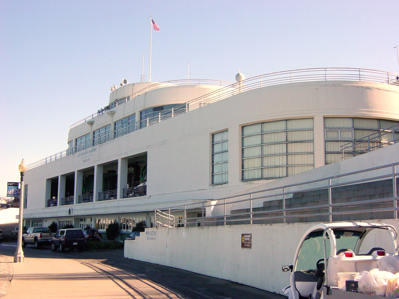 The Maritime Museum in San Francisco — in the Aquatic Park Historic District, within the San Francisco Maritime National Historical Park. Formerly the Aquatic Park Bathhouse, containing club and social areas, and changing rooms. An example of Streamline Moderne architecture, built in 1936 by the WPA. Credits Images by User:Leonard G. Maritime Museum Judge's tower